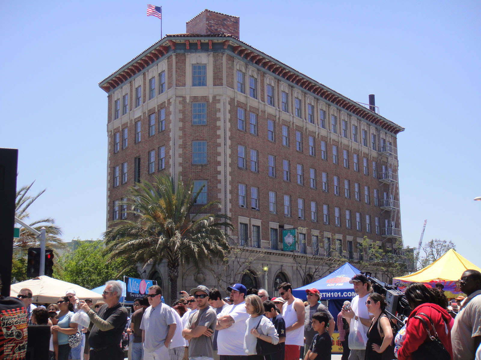 Culver Hotel in Culver City, CA.